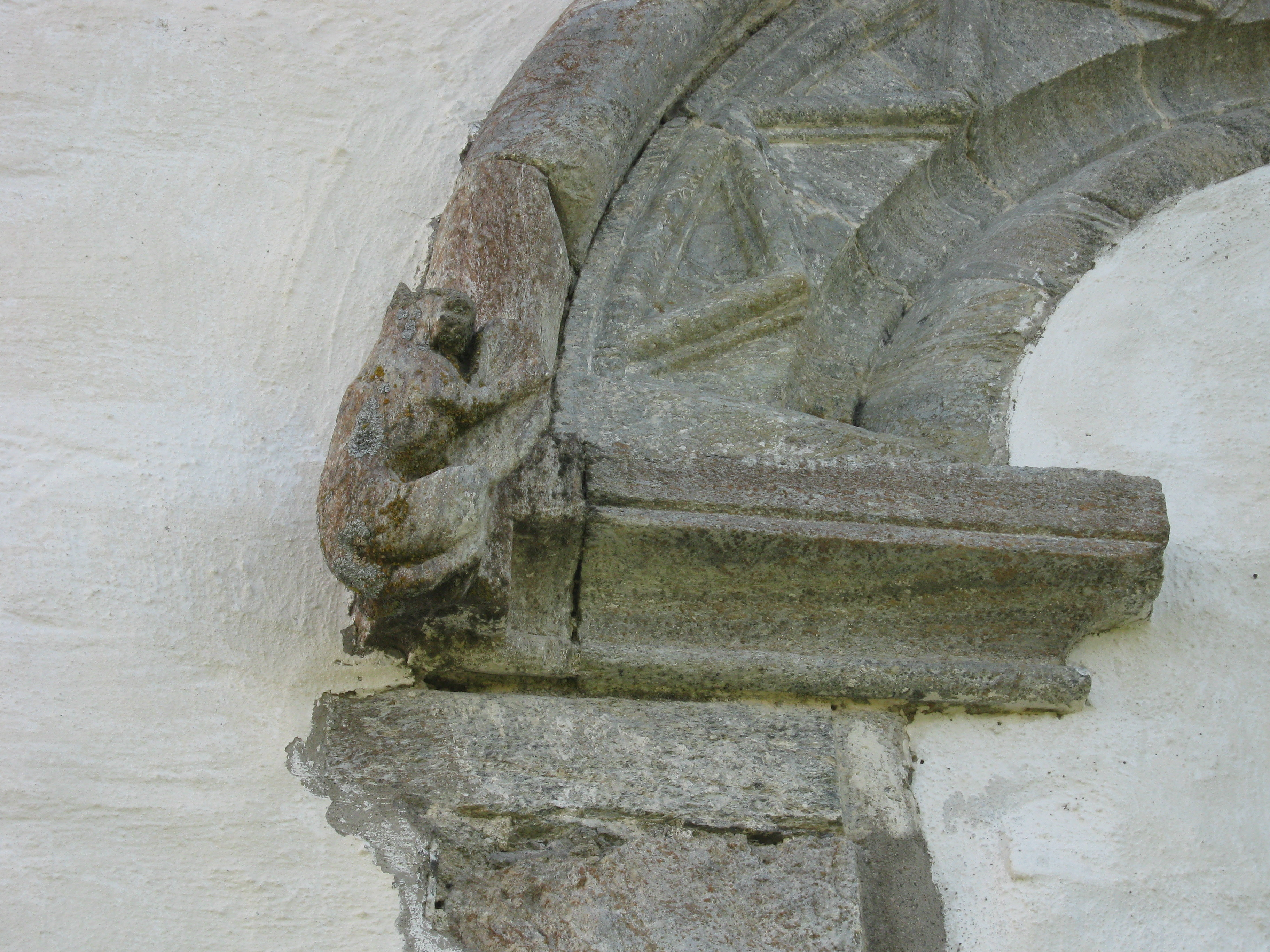 Detail from portal in Mære church (12th century), Steinkjer, Nord-Trøndelag county, Norway.